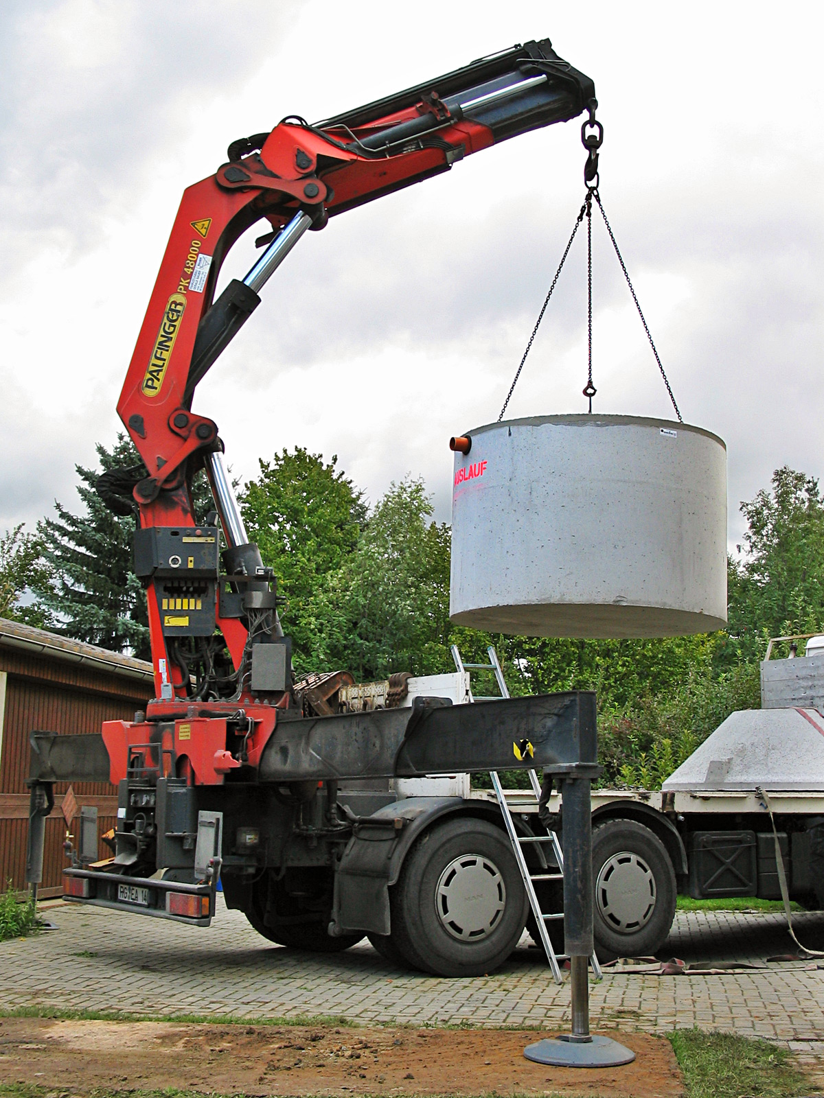 A truck-mounted crane from Palfinger (Austria). The concrete component (build in Germany) is a small sewage treatment plant for a house with up to four residents.